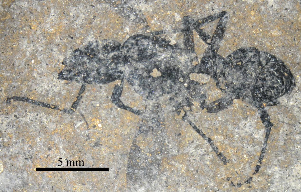 Profile view of the Protopone sepulta holotype gyne. Specimen SMFMEI5329